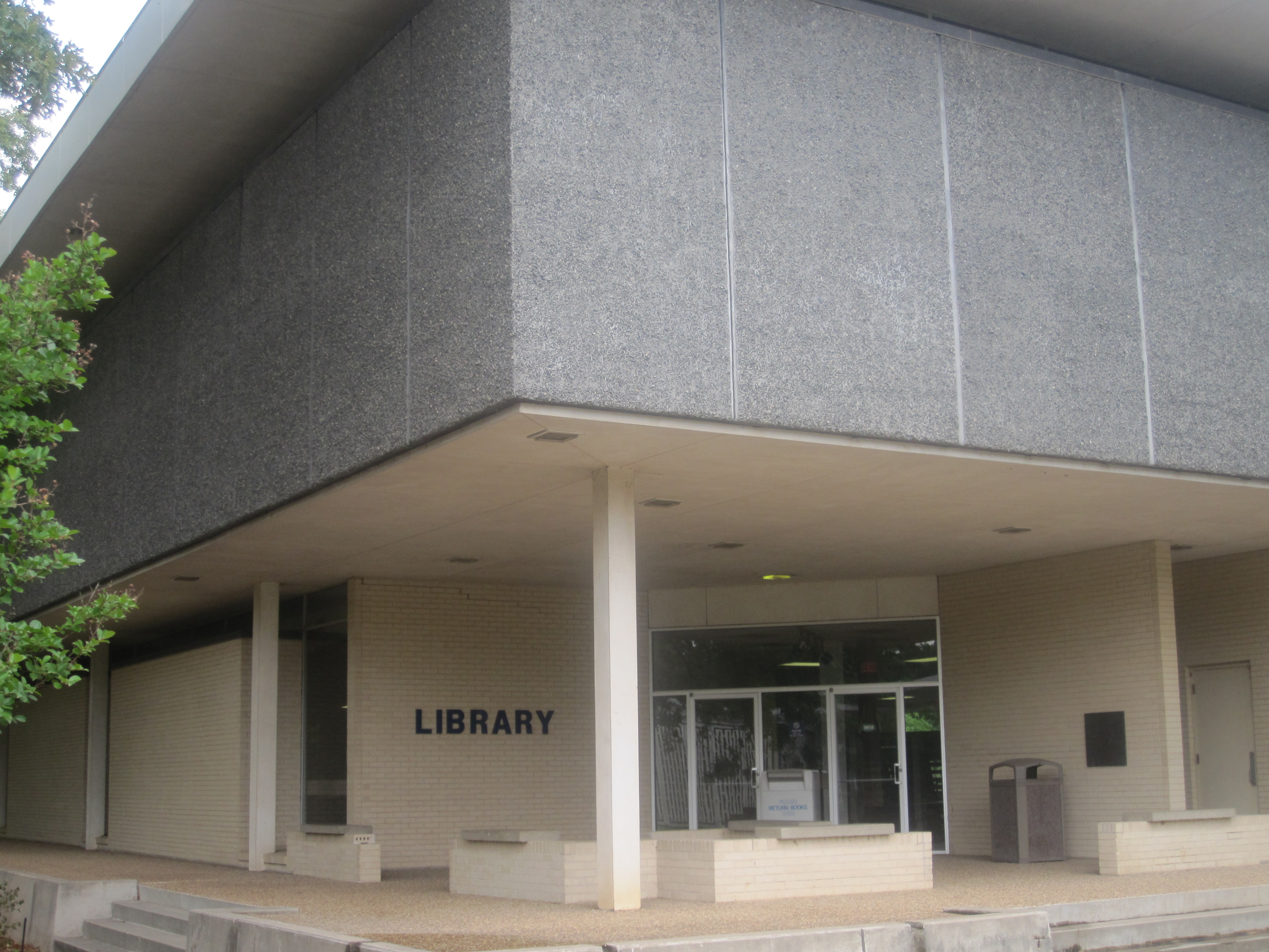 PLEASE PUT INFORMATION ABOUT WHAT THIS PHOTO SHOWS HERE!